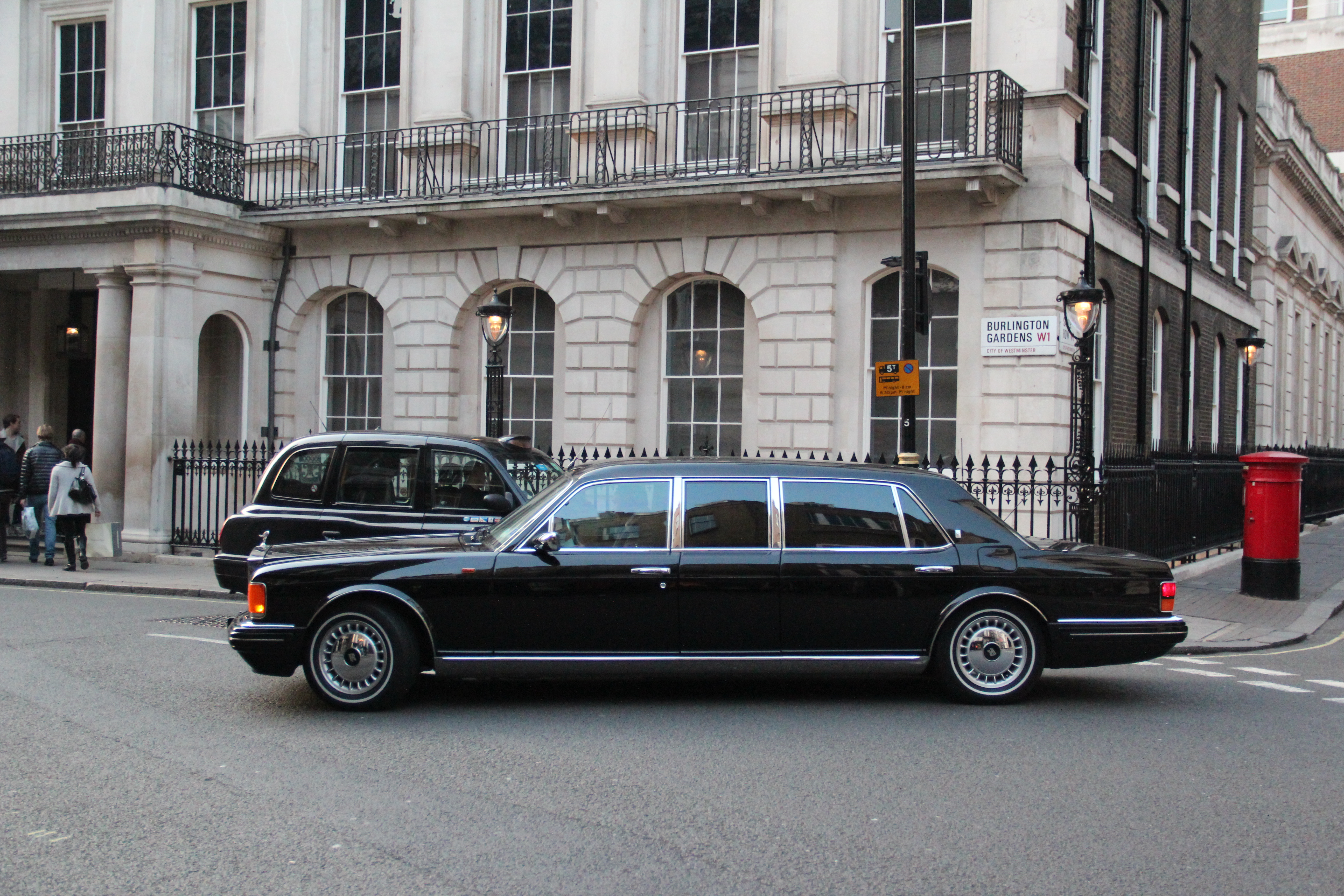 park ward limousine